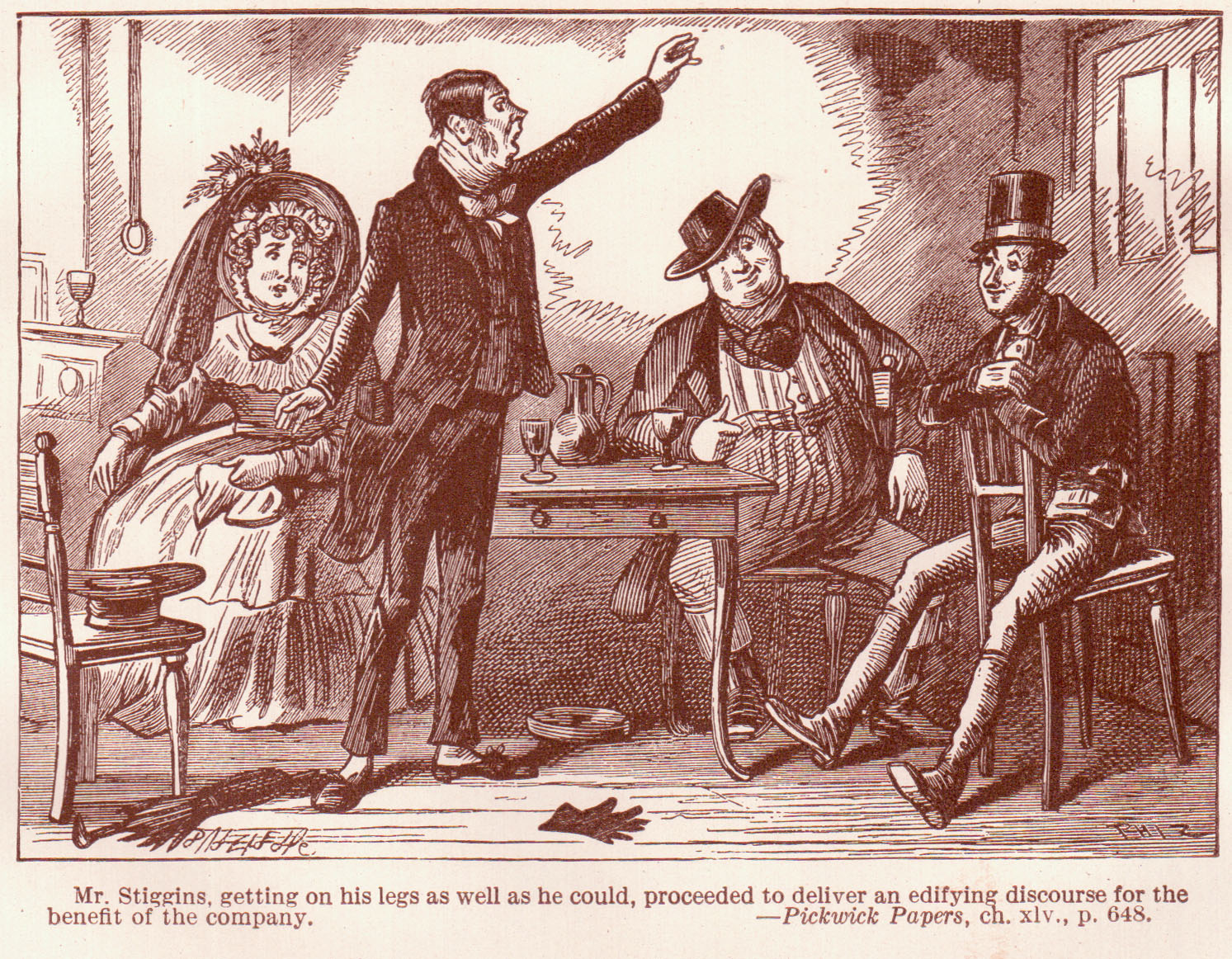 From the public domain book, "The Anniversary Edition of the Works of Charles Dickens, February 7, 1812". The books were published in 1911 by P.F. Collier &Son of New York. This copyright free illustration is from the book, "Pickwick Papers Part II. Flickr data on 2011-08-17: Tags: 1911, book, Charles Dickens, copyright free, creative commons, flickr, free, freebie License: CC BY 2.0 User: perpetualplum Sue Clark